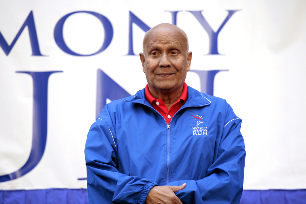 Sri Chinmoy at Start of World Harmony Run (Peace Run), in New York, US.